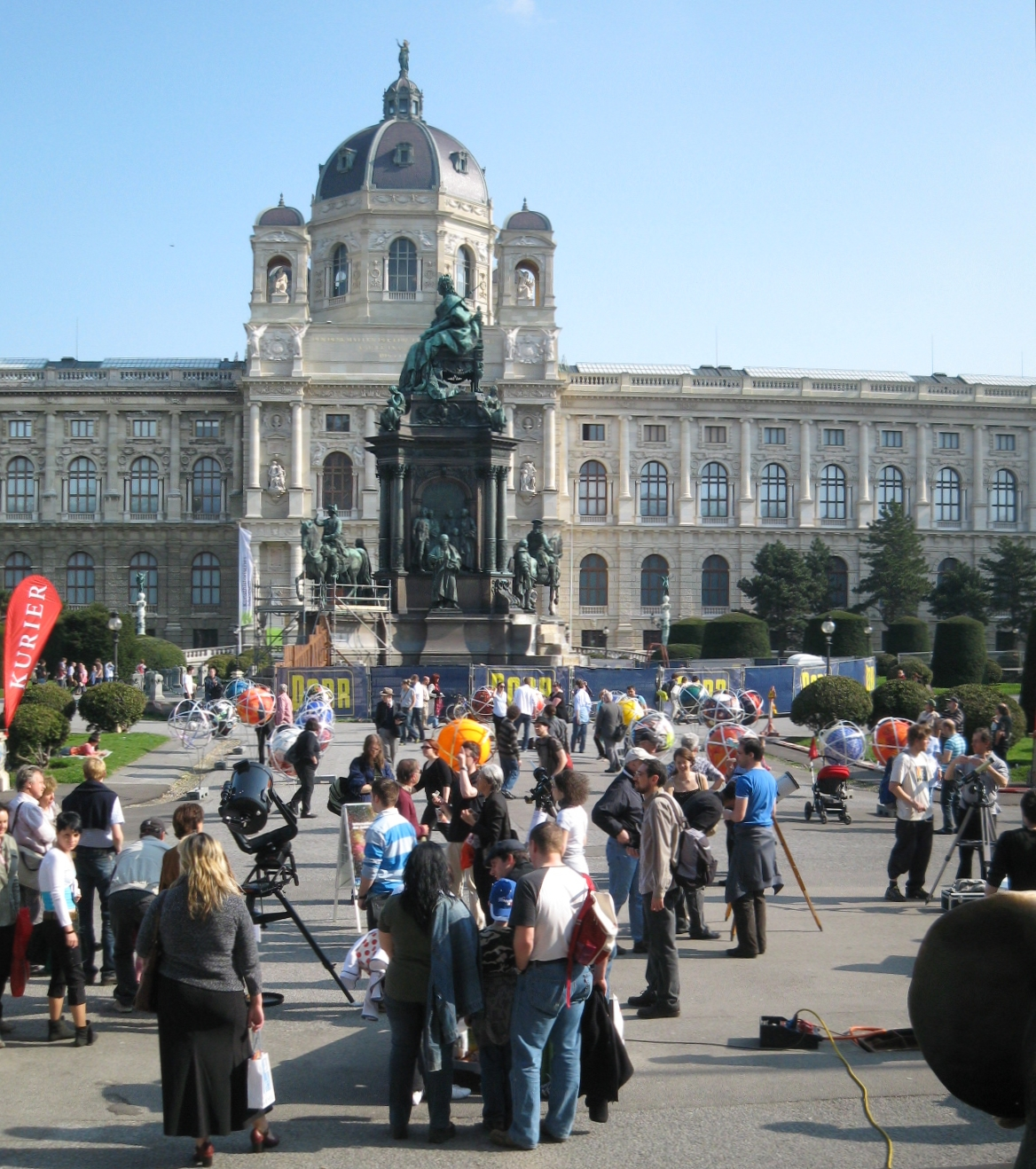 Performance "Rolling stars and planets" in front of the Museum of Art History Vienna at the day of Astronomy, April 4th 2009.